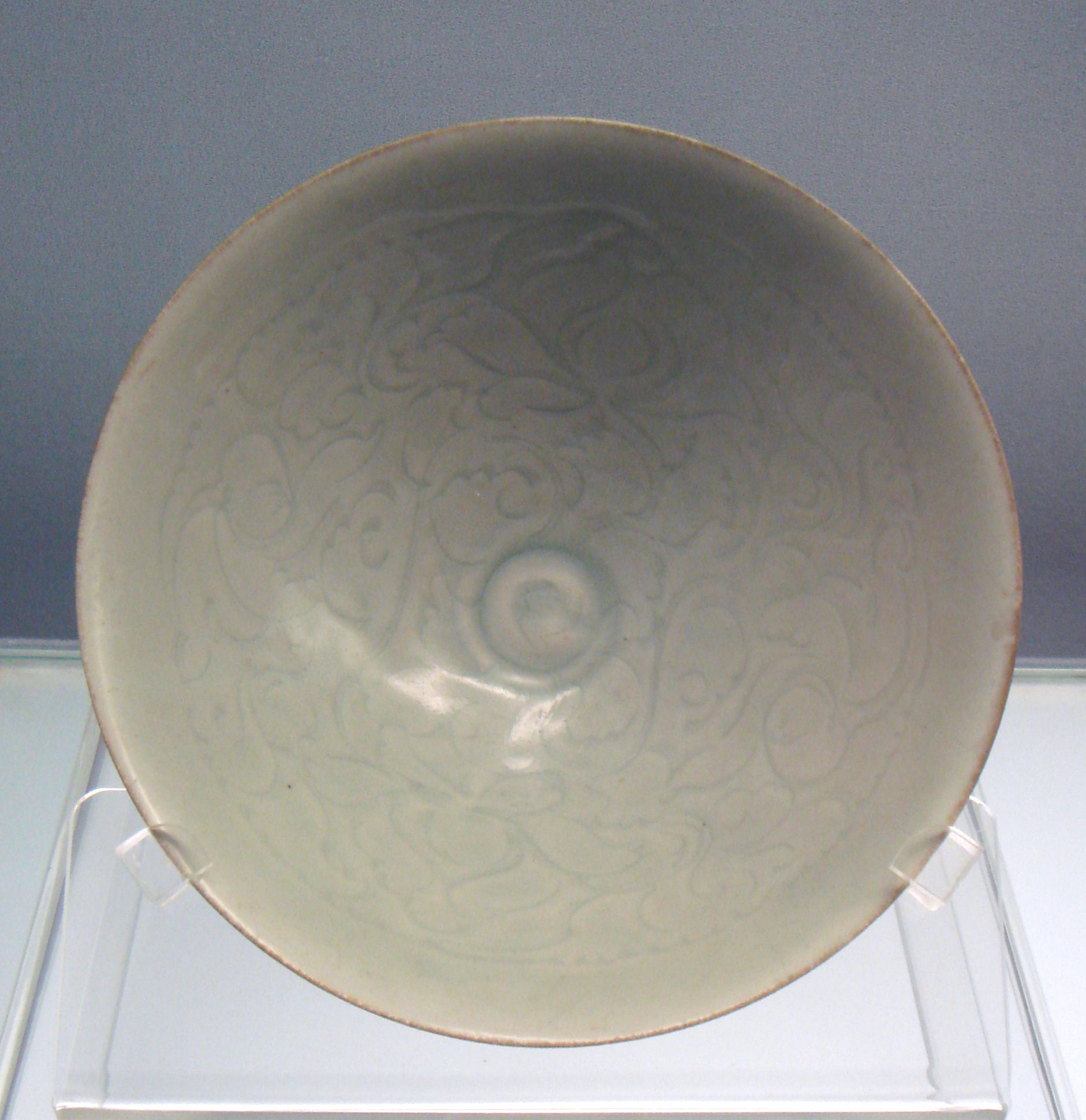 Qingbai_glazed_bowl_with_carved_peony_designs_Jingdezhen_ware_1127_1279.